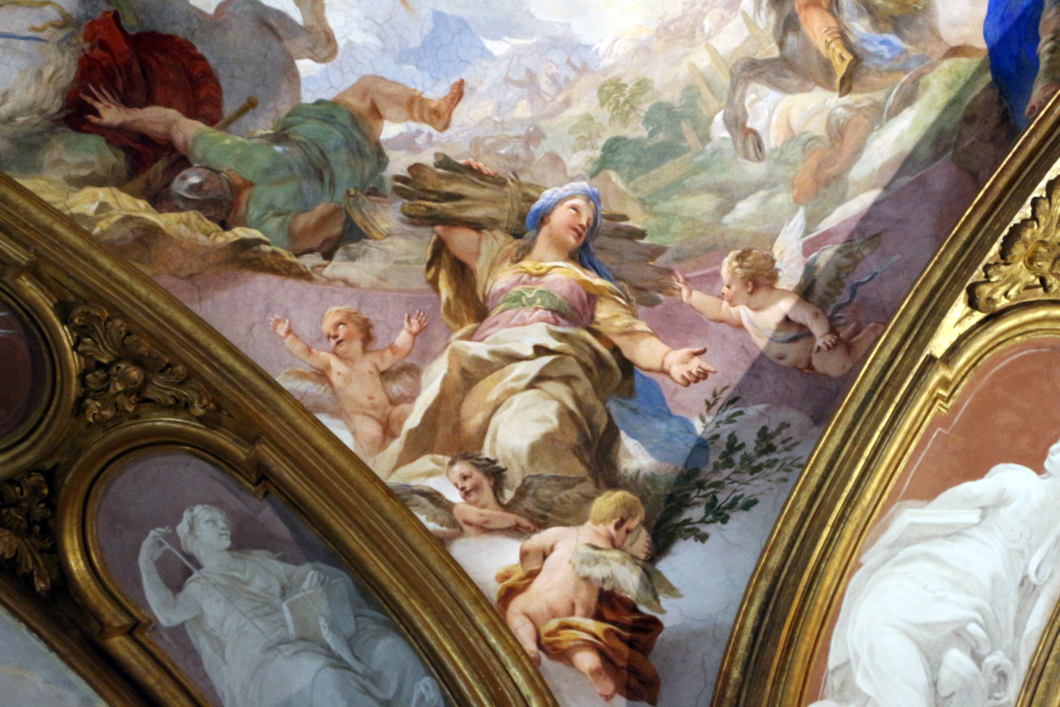 Certosa di San Martino (Naples)